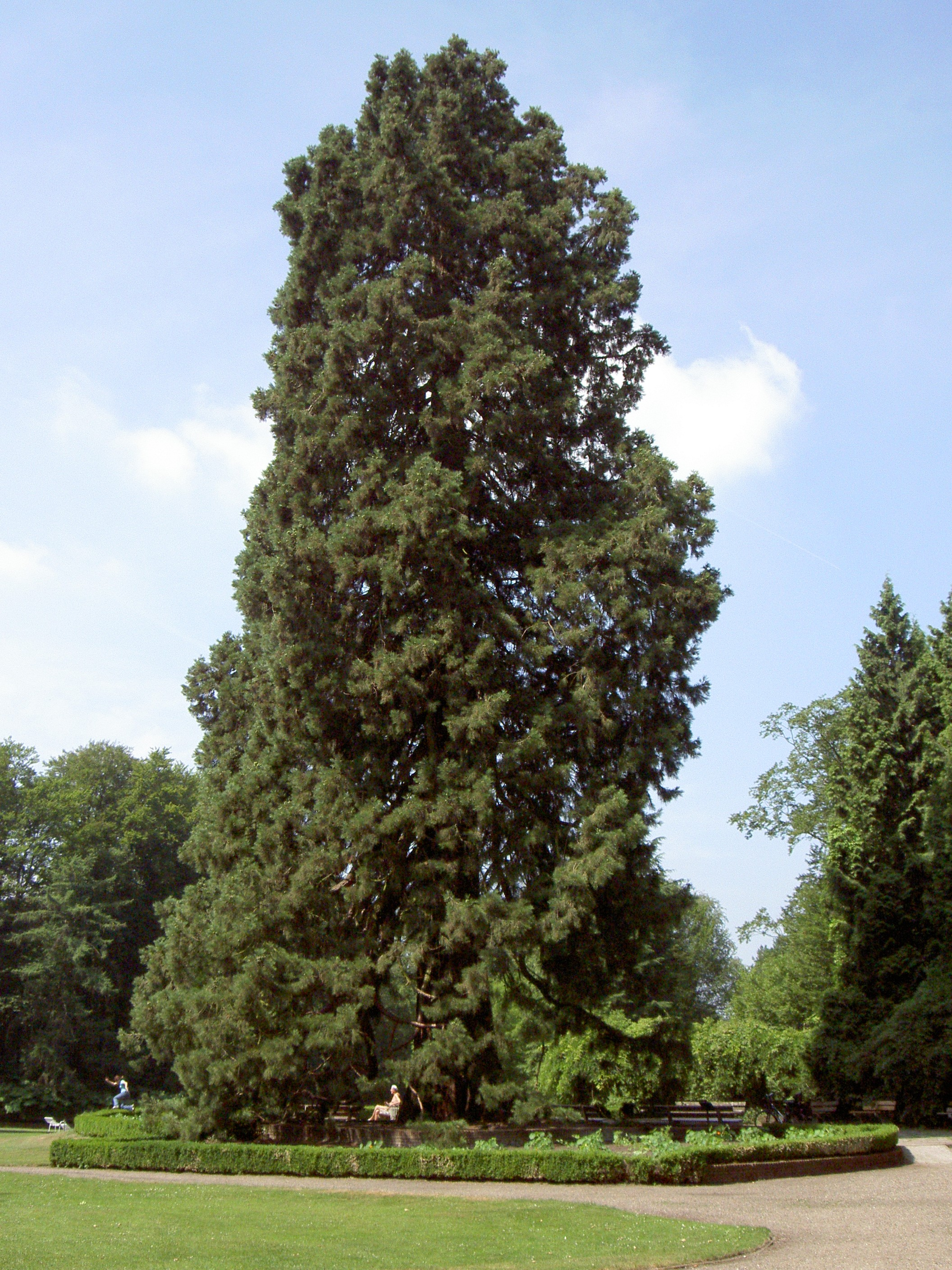 Giant Sequioa in the Ledeboerpark in Enschede, The Netherlands